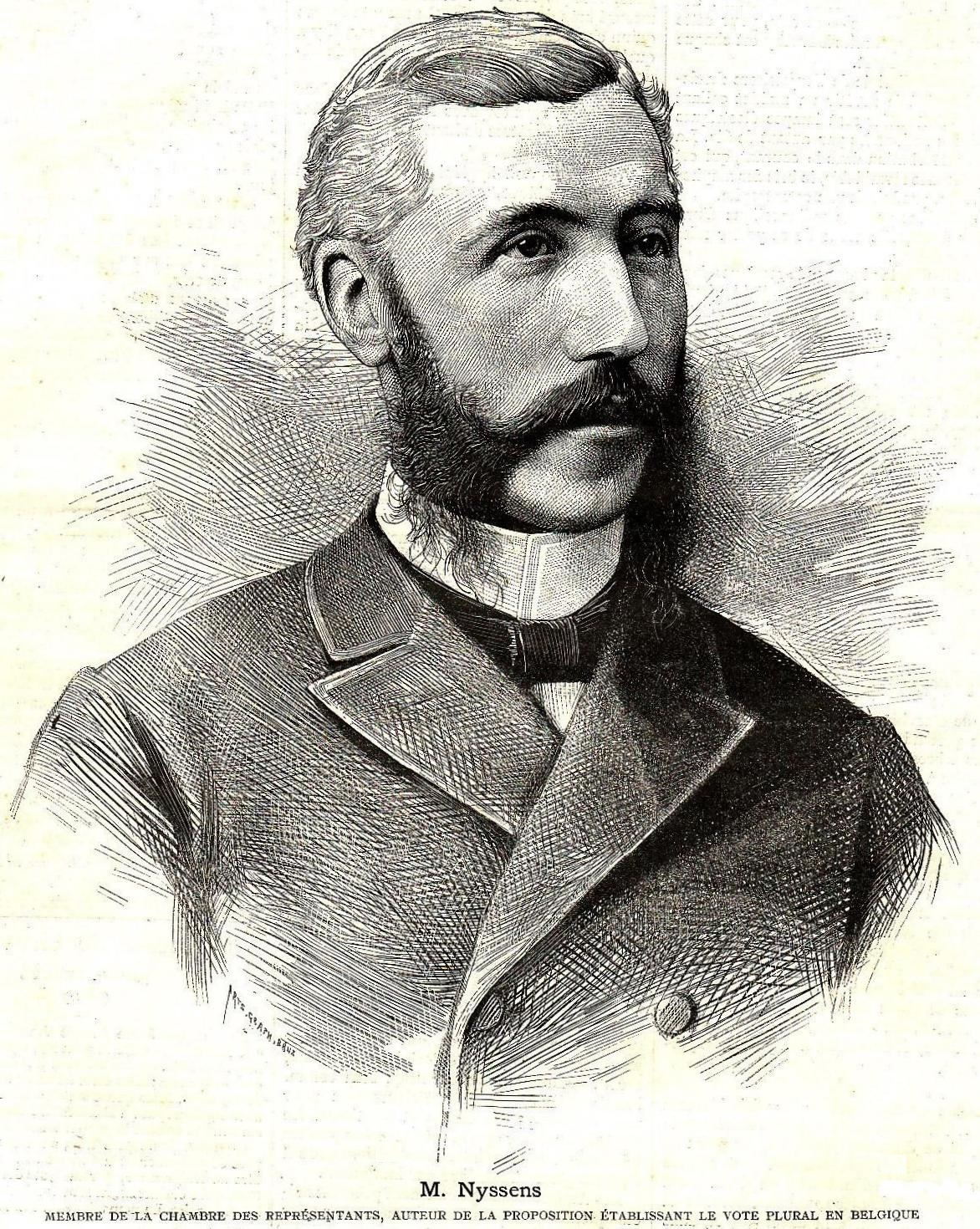 Mr Albert Nyssens (°1855 +1901) was a Belgian lawyer, University Professor, Member of Parliament and Minister of Industry and Labour (1895-1899)